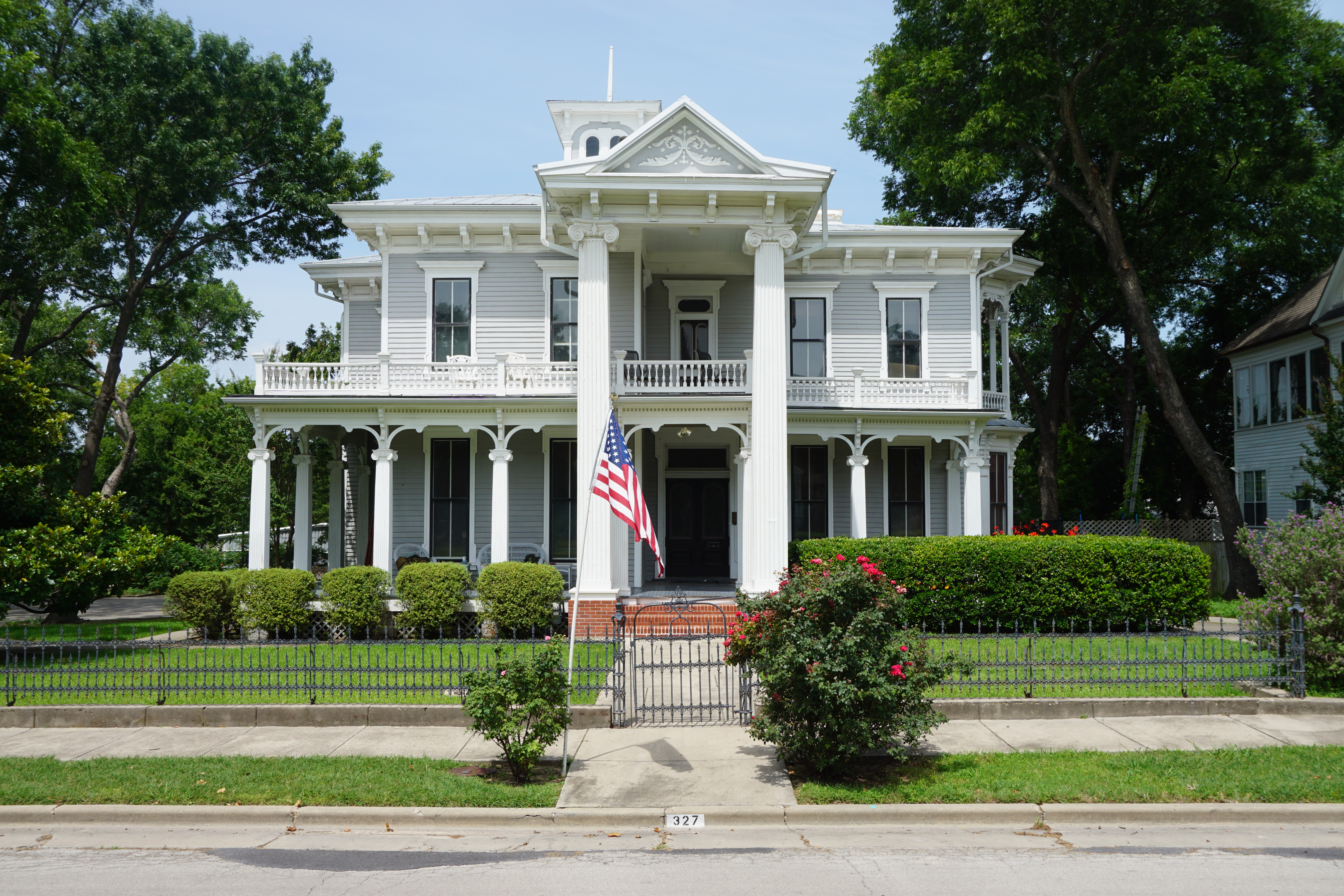 The Cloud-Stark House in Gainesville, Texas (United States).